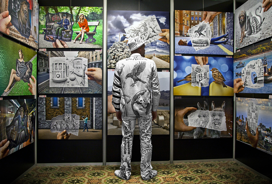 I attended the vernissage of the Brussels Accessible Art Fair with customized shirt, trouser, hat and shoes... I drew the designs on my clothes with simple black markers. I used some 25 markers in total! (you can view some photos of the making of here below). You can view some other photo reports of all my past exhibitions at this link. Limited Edition prints of my artworks (Diasec and Dibond finishing) can be found at this page.